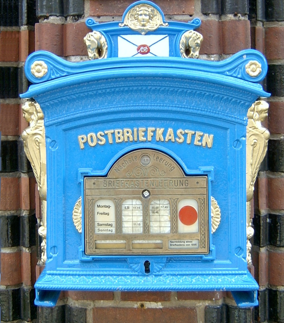 Historical letterbox auf General Post Office (street corner Lindenstraße/Logenstraße) in Frankfurt (Oder), Brandenburg, Germany